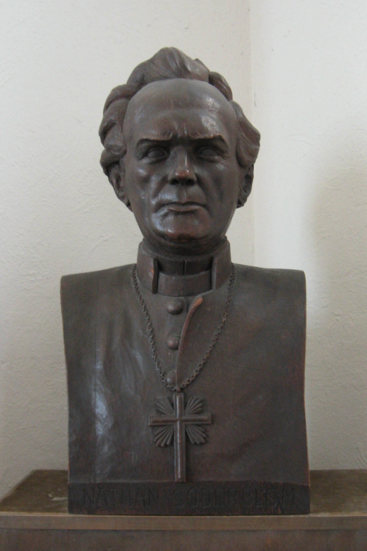 Bust of Nathan Söderblom, (15 January 1866 – 12 July 1931), Swedish clergyman, Archbishop of Uppsala in the Church of Sweden, and recipient of the 1930 Nobel Peace Prize. Bust placed in Kungsholms church in Stockholm, Sweden.